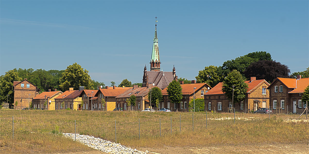 Village of Annahütte, Schipkau, Brandenburg, Germany